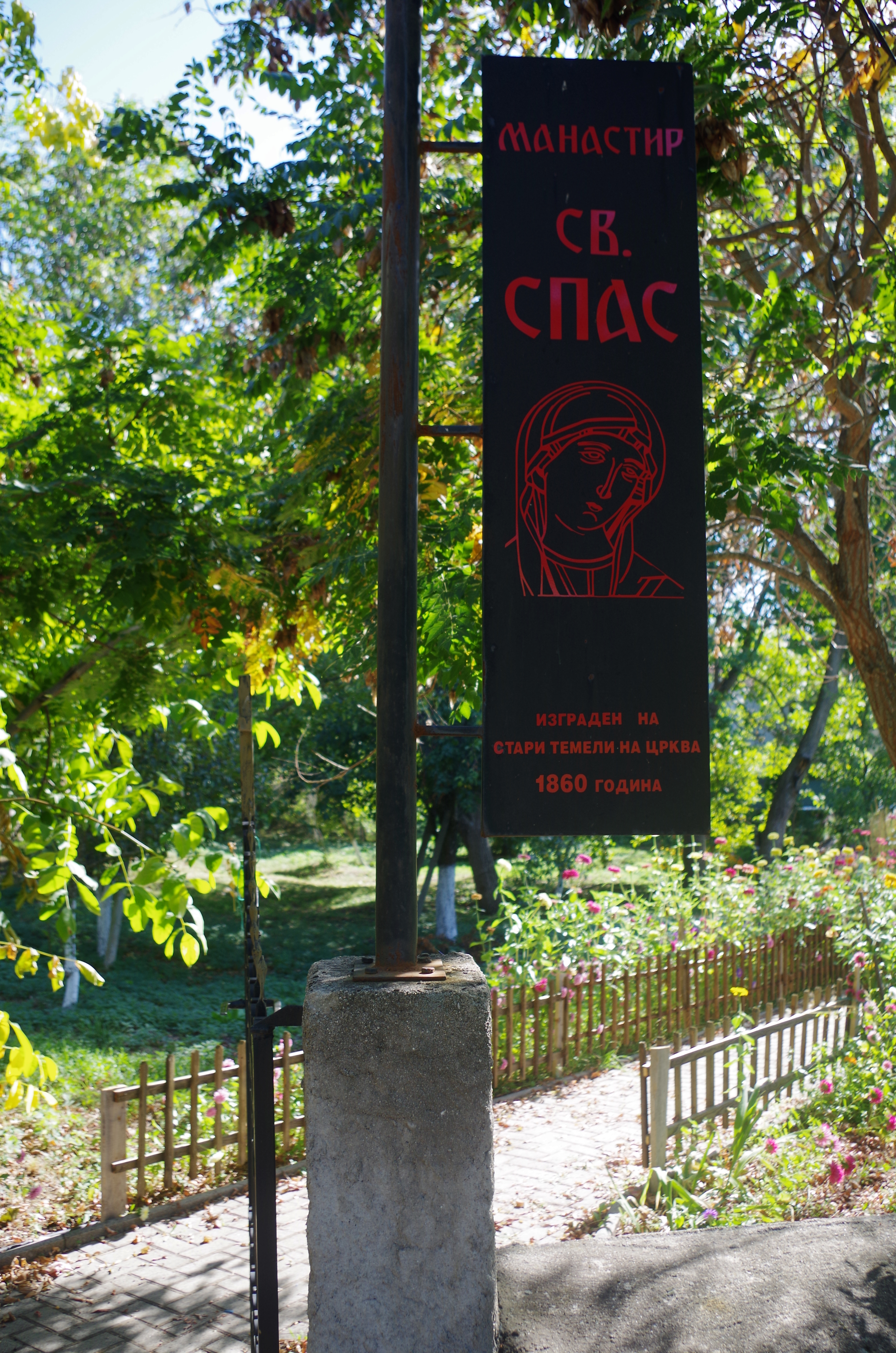 Inscription on the entrance of the Čemersko Monastery